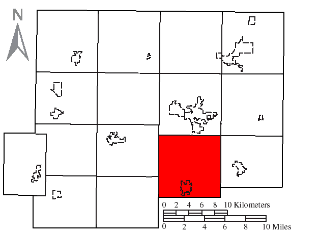 Made by the US Census and modified by myself